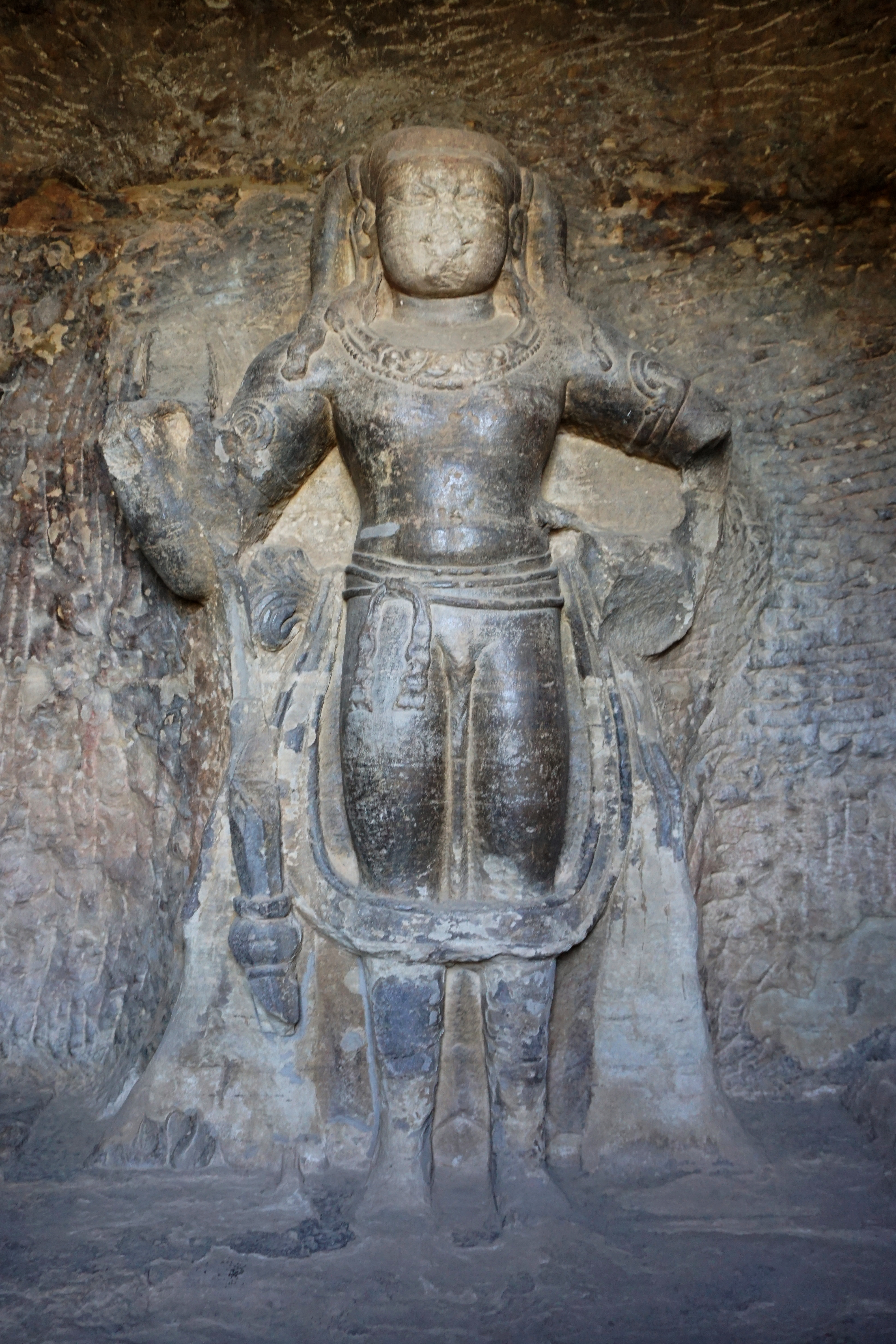 Skanda, cave 3, Udayagiri Caves, Vidisha, India. Late 4th-century.